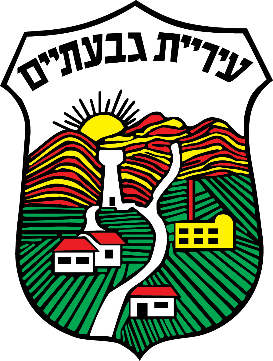 Coat of Arms of the city of Giv'atayim